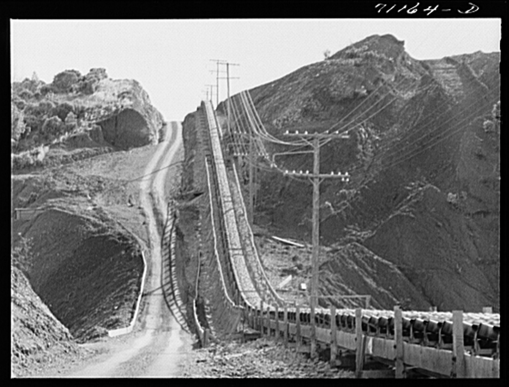 Rubber belt coveyor which brings gravel to Shasta Dam. Shasta County, California